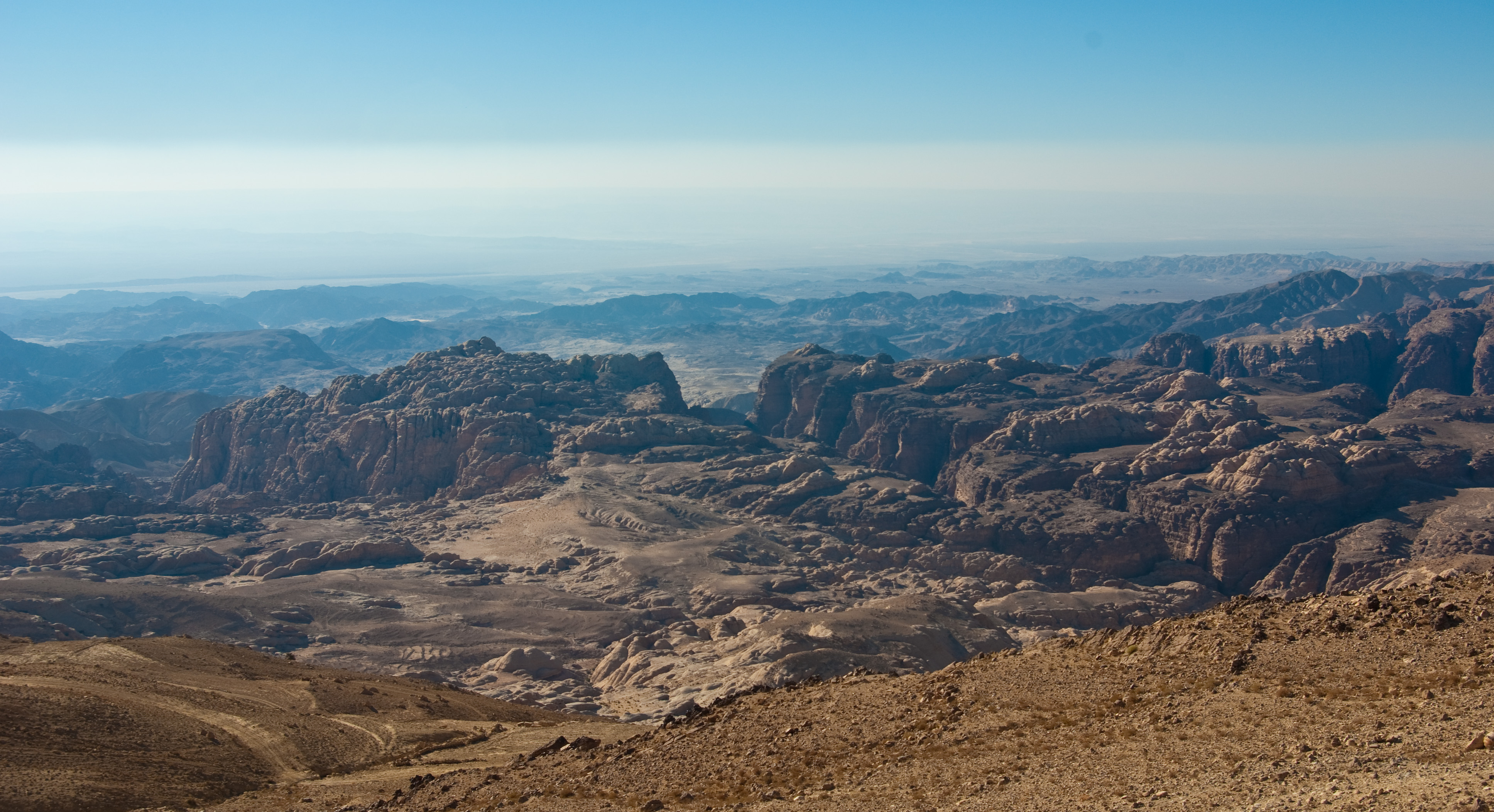 area of Petra